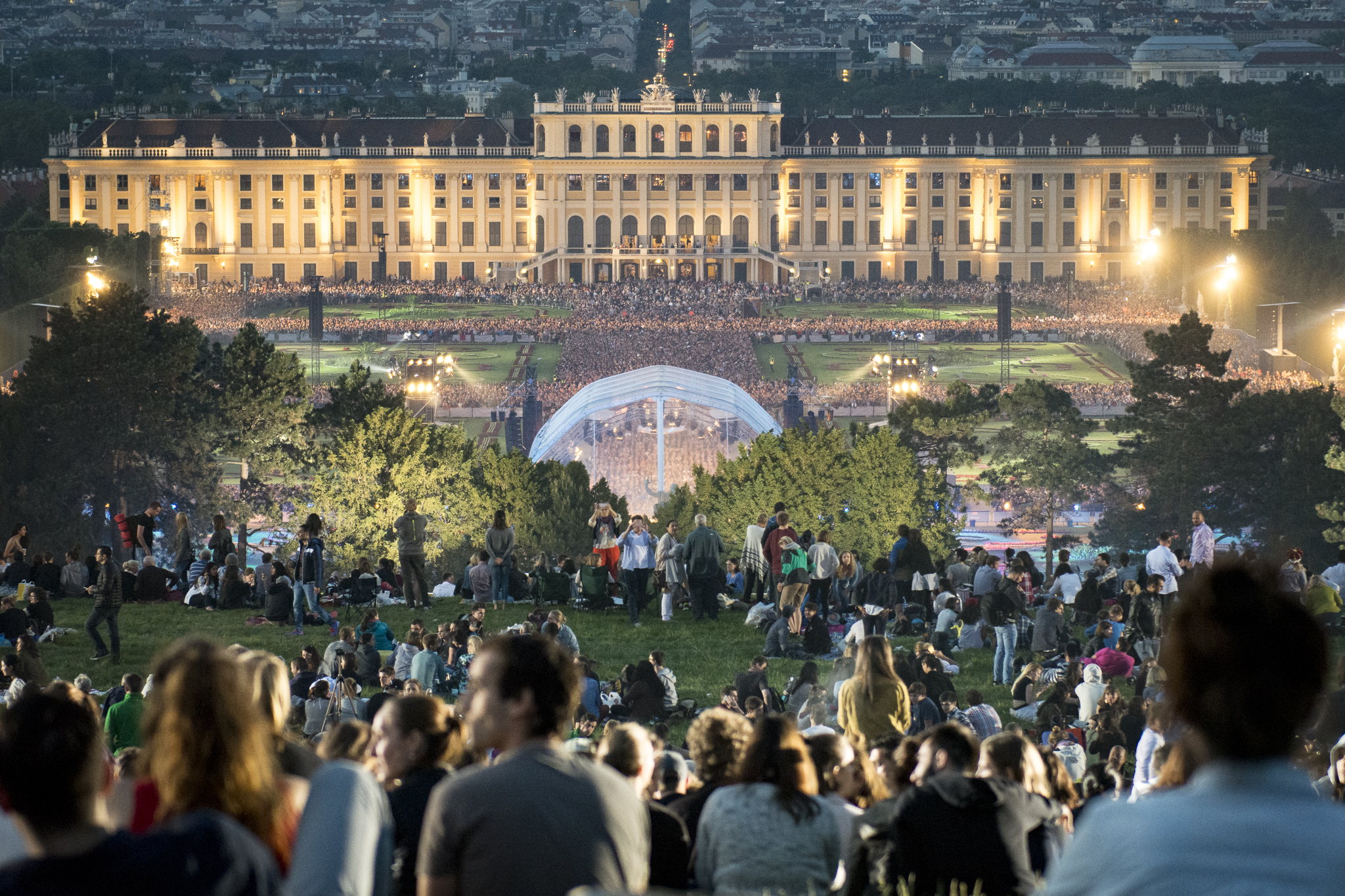 this photo was taken at the vienna schönbrunn summernightconcert 2016 - where thousand of people enjoy the music and the unique atmosphere at night in schönbrunn